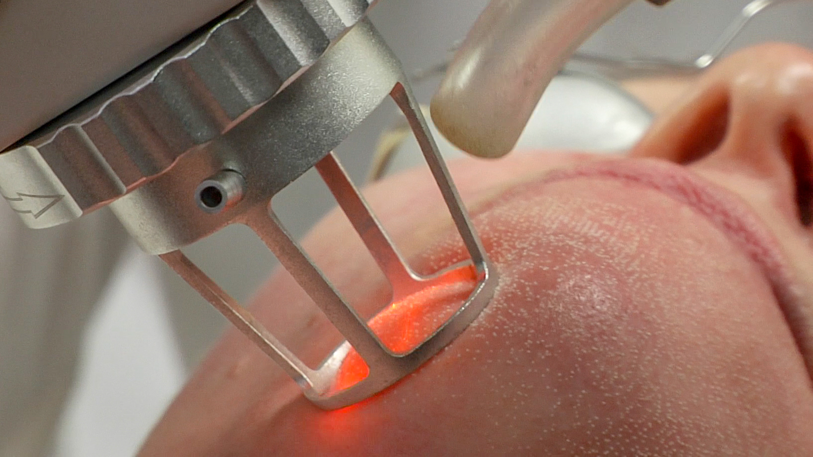 CO2 Fractional laser on the face